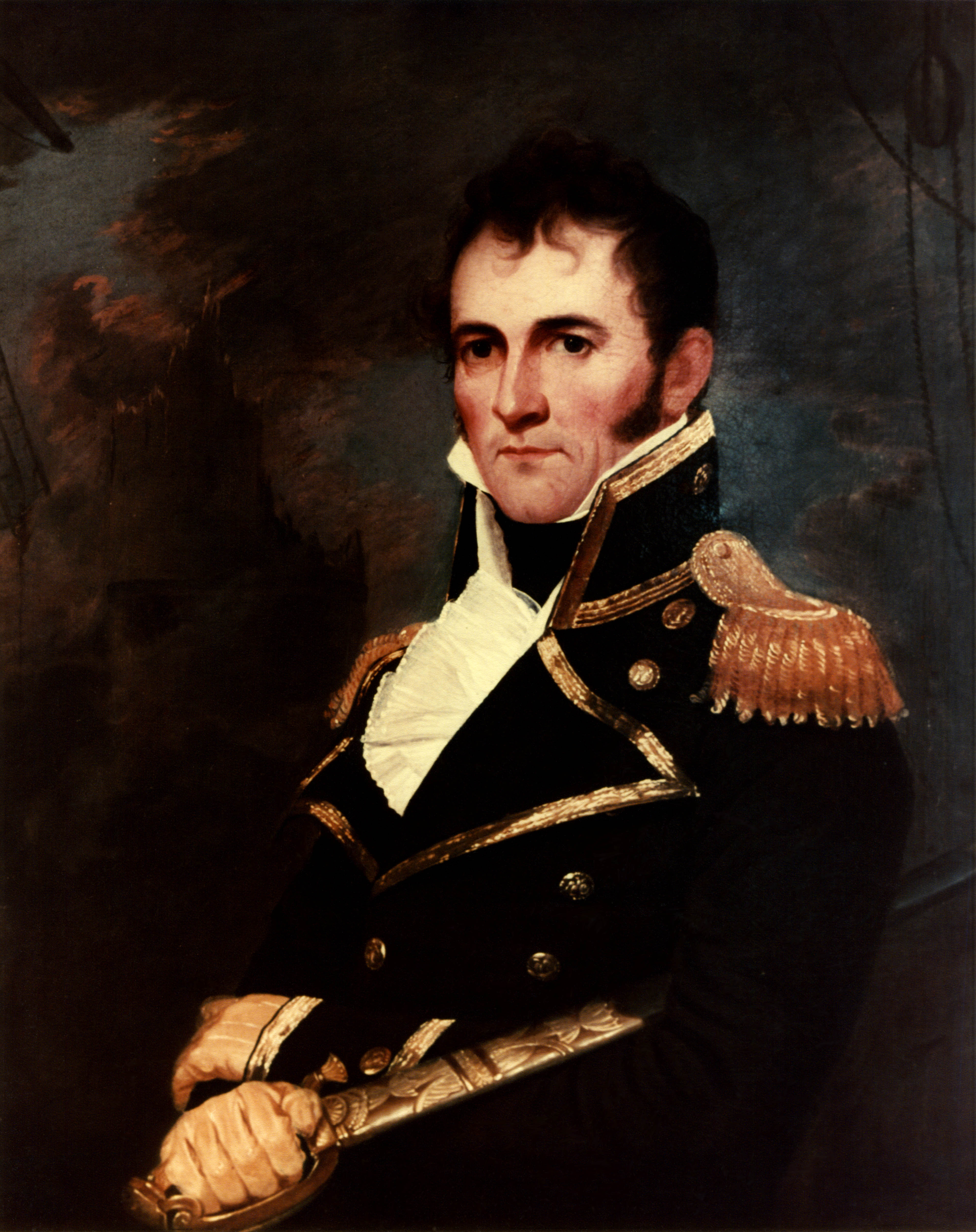 David Porter (1780–1843), United States Navy officer